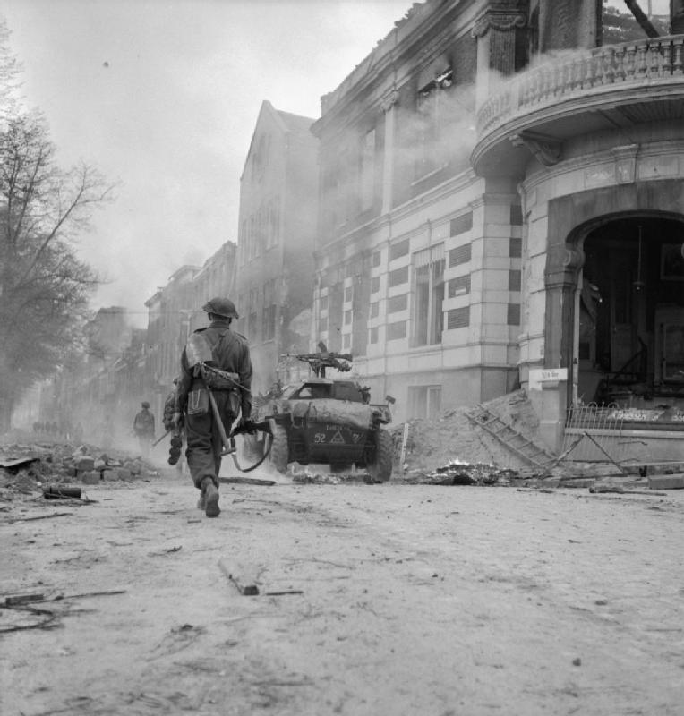 A scout car and infantry fighting their way through Arnhem, 14 April 1945.